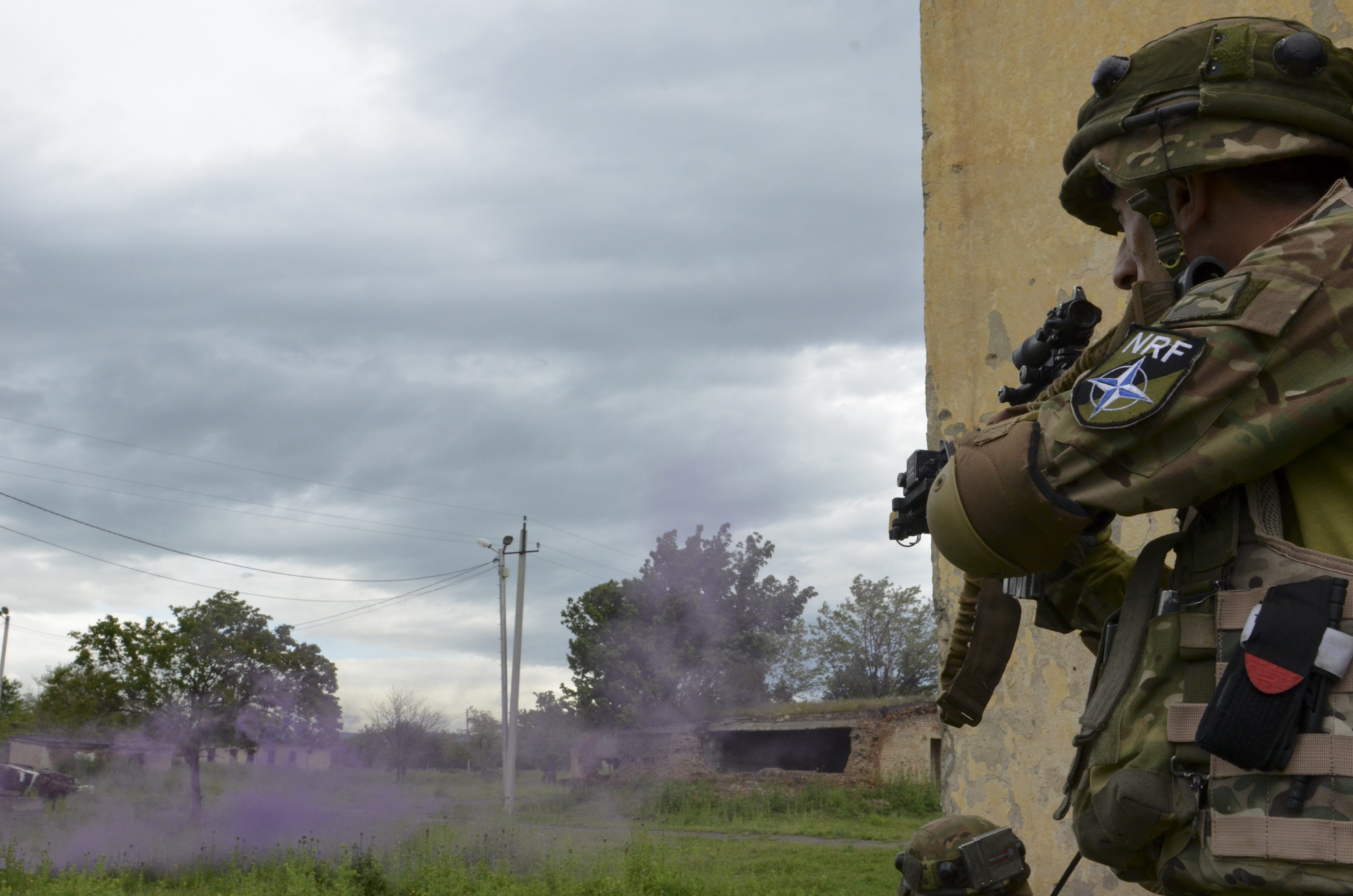 A Georgian soldier from the 1st Infantry Brigade’s NATO Response Force company surveys the terrain during an urban warfare training exercise with the 173rd Airborne Brigade and the Georgian 1st Infantry Brigade as part of Exercise Noble Partner here May 17. Noble Partner is a combined U.S. Army Europe-Georgian army exercise designed to increase interoperability between Georgia’s contribution to the NATO Response Force and allied militaries. (U.S. Army photo by Sgt. A.M. LaVey)